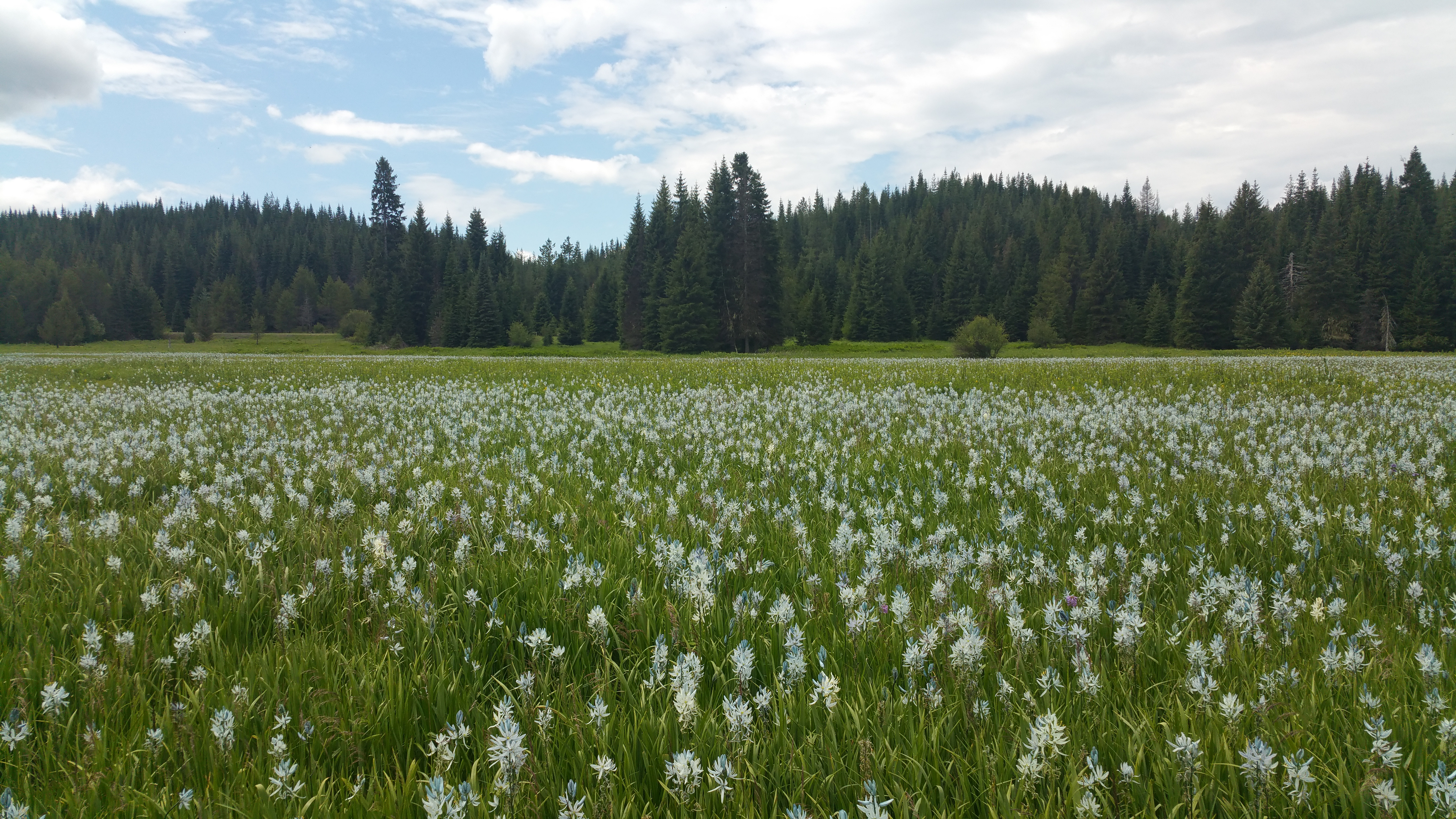 Musselshell Meadow- a blooming camas prairie. This is a place for the Nez Perce people to gather and dig camas. It is currently a protected area, due to the cultural significance it holds.